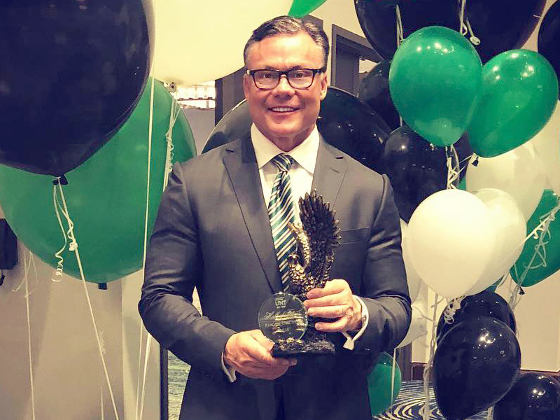 Reagan Lancaster inducted into University of North Texas Business Hall of Fame on April 6th, 2018